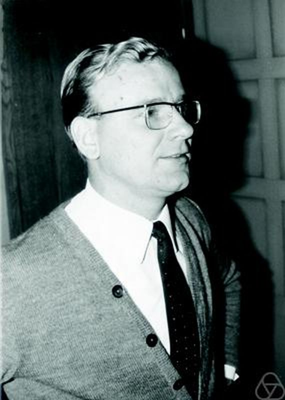 Volker Mammitzsch, 1971